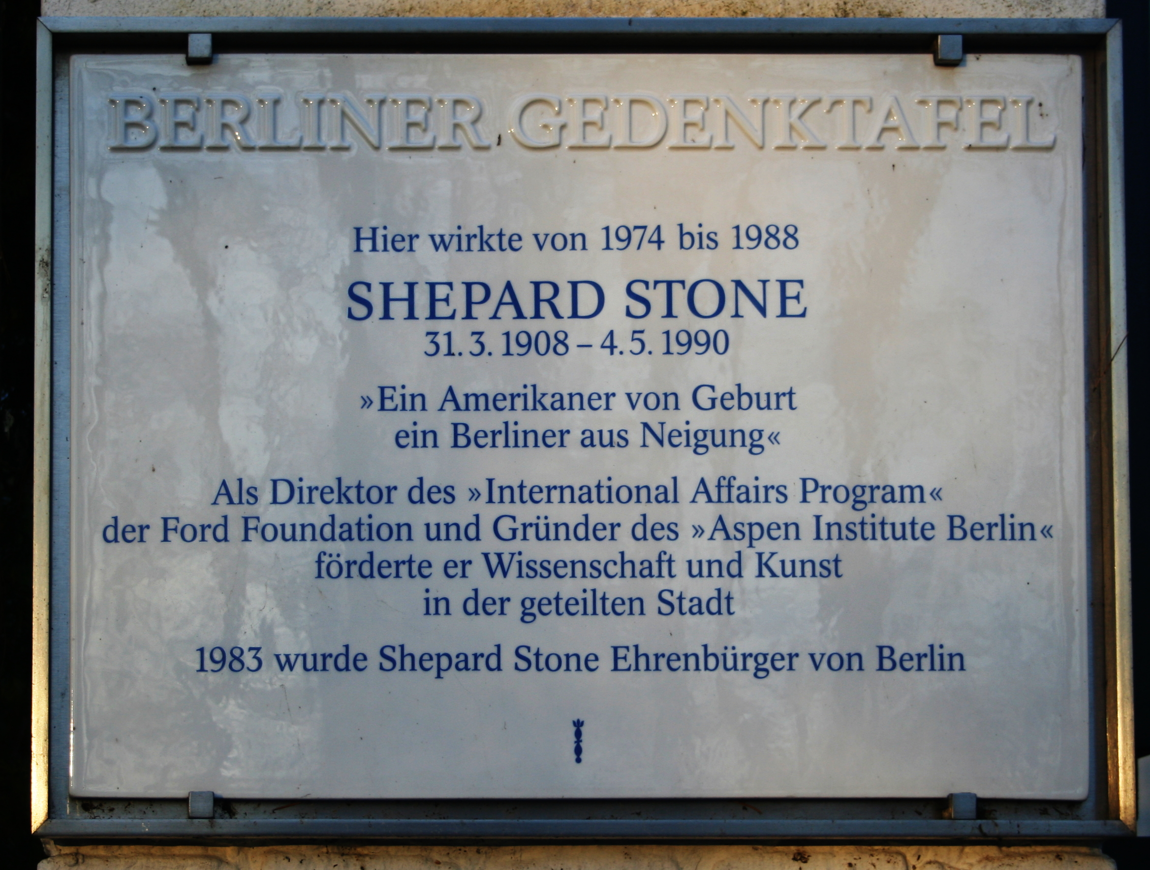 Berlin memorial plaque for Shepard „Shep“ Stone at the Berlin branch of the Aspen Institute.